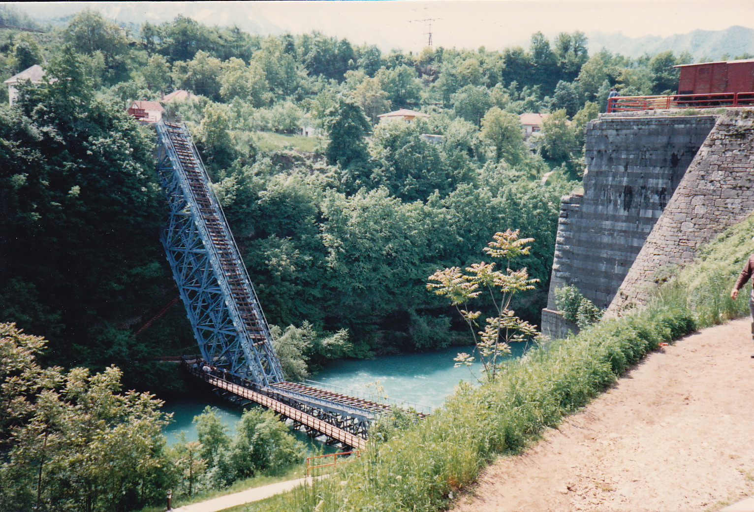 The "bridge" Tito built to fool the Germans in 1943